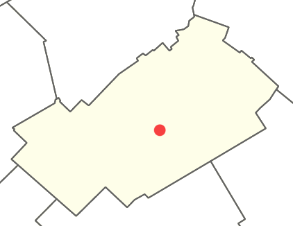 The ubication of San Andrés de Giles City in the San Andrés de Giles Partido.